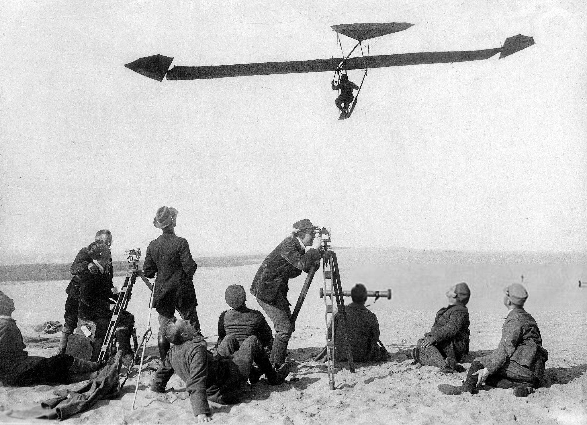 The glider pilot Schulz during his record flight at the coast in Rossitten, men watching and measuring the flight.